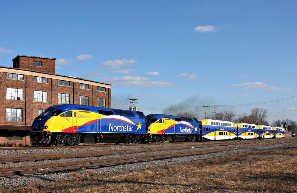 Northstar train 1933 zips by the old building at Van Buren Street in Minneapolis. Northstar has been using two locos on weekend trains since one broke down at Target Field leaving Metro Transit to scramble to get commuters home.